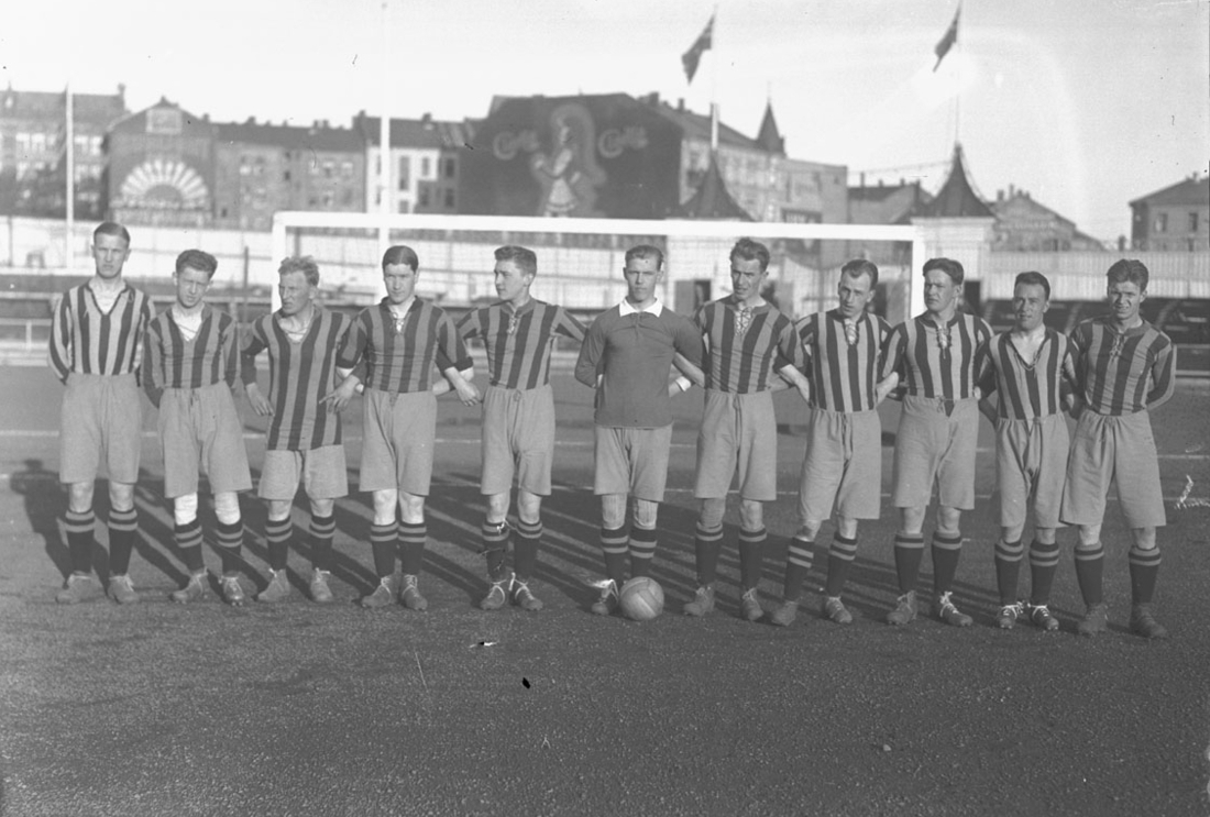 Football teom of SK Gjøa, Oslo, at Bislett stadium 1926.